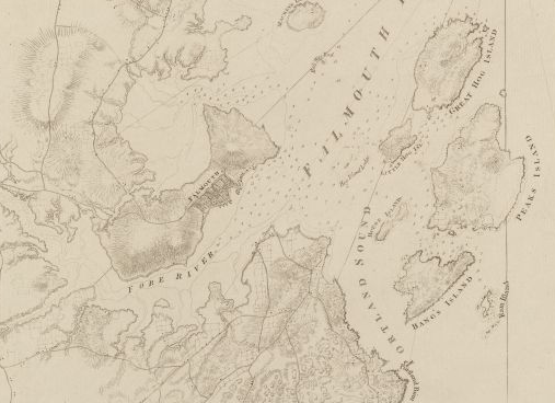 This is a detail from the source, which is a nautical chart. The full chart shows the 1777 town of Falmouth (now Portland), in Maine when it was still part of Massachusetts, Falmouth Harbour, and Portland Sound. This detail shows only Portland Sound, the town of Falmouth, and the Fore River area south of the town.